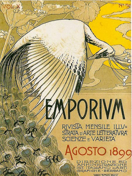 Poster by Umberto Bottazzi.